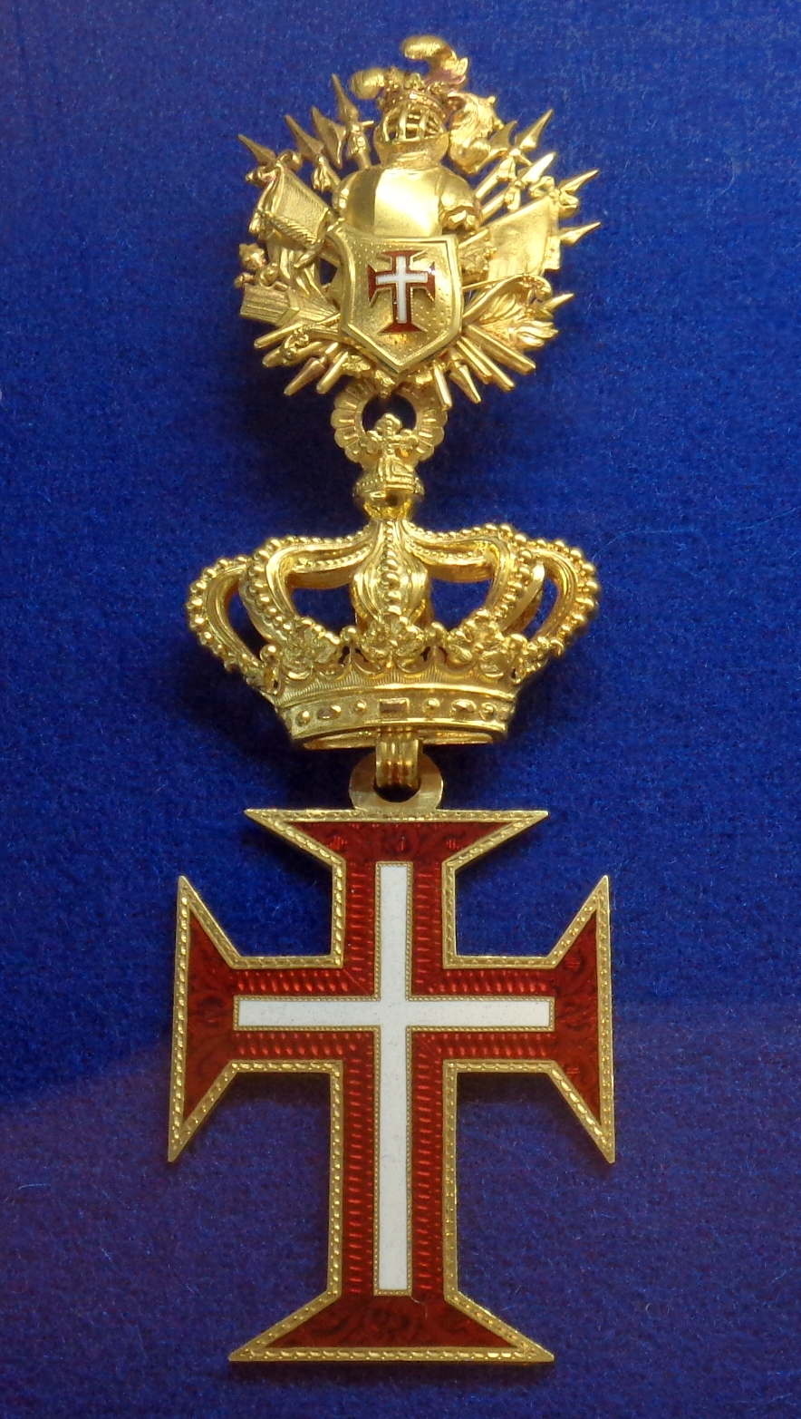 Supreme Order of Christ, badge. Vatican. The exhibition of the Tallinn Museum of Orders of Knighthood, Estonia.